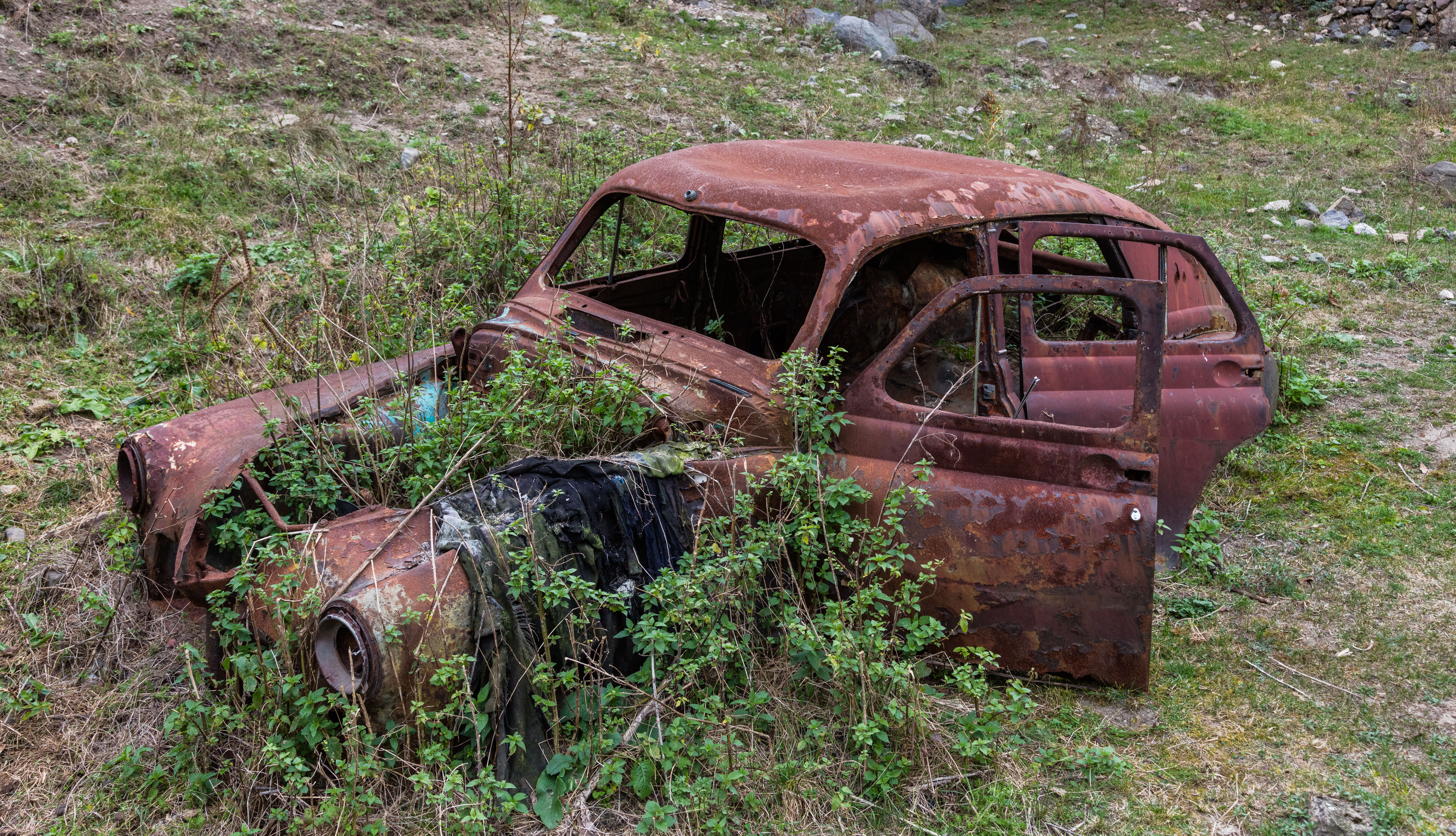 Abandoned rusted vehicle, Kurtan, Armenia